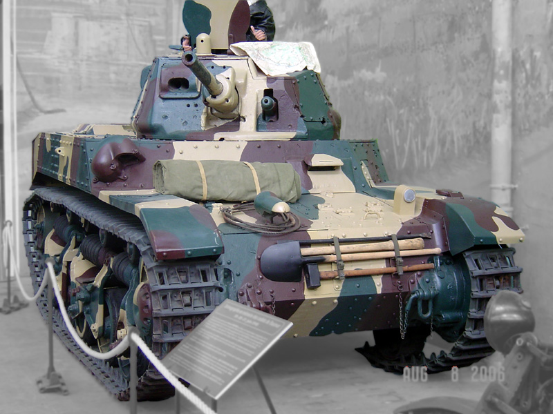 AMC-35 on display at the Musée des Blindés in Saumur. The picture taken August 8, 2006.